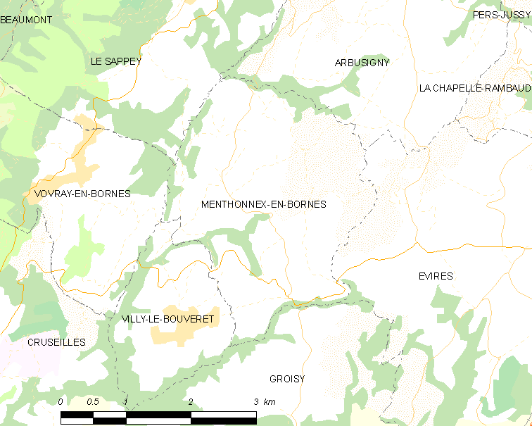 Map of French municipality Menthonnex-en-Bornes